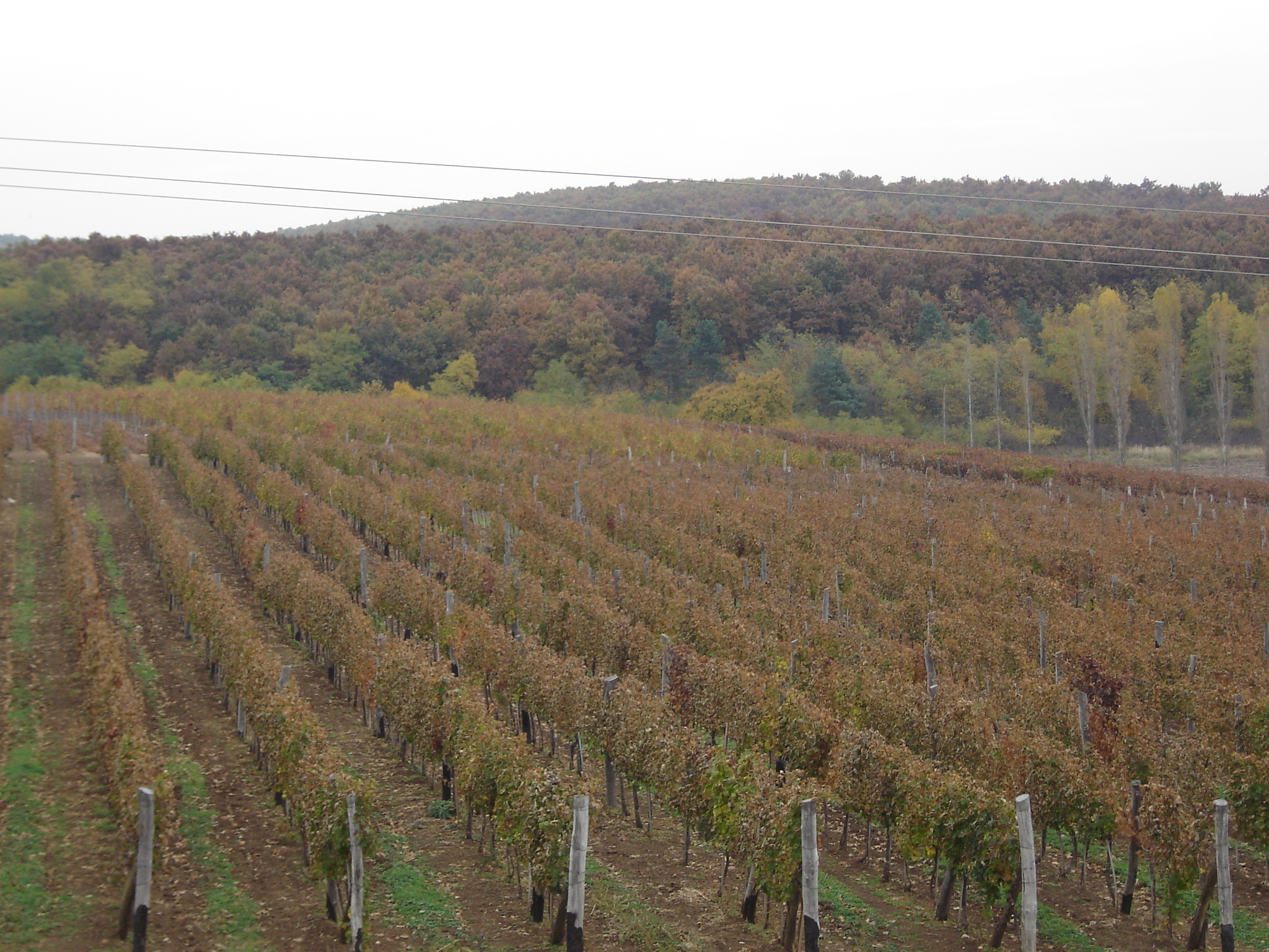 Vineyard in the Hungarian wine region of Eger